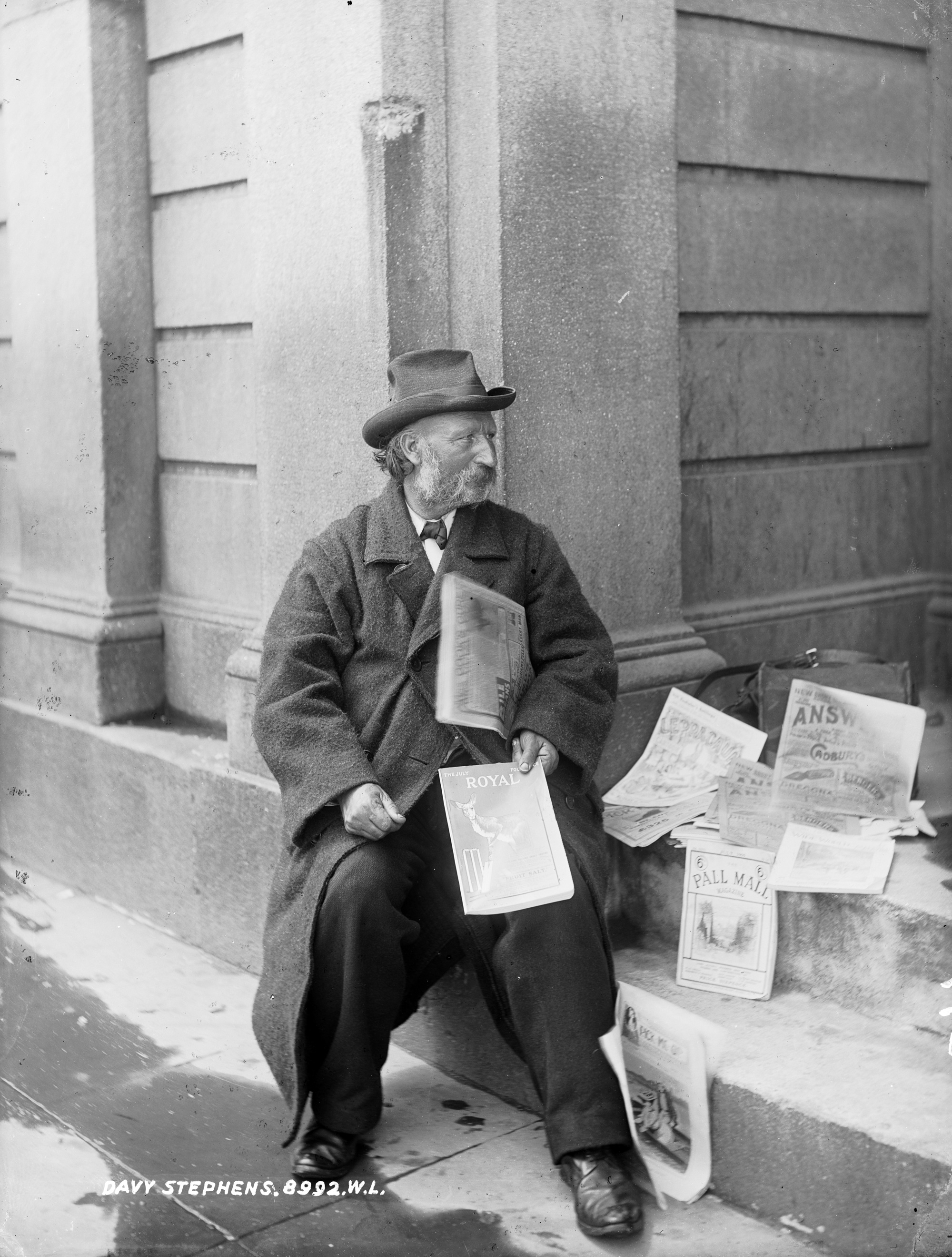 Really unusual for us to find a named person in our Lawrence Collection photographs, but here is Mr Davy Stephens. A really cursory Google search reveals that he was a very famous news seller around Kingstown (now Dun Laoghaire). Read the comments below for tons (you all recognise that technical term) of information about this colourful Dublin character. Date: July 1905 NLI Ref.: L_ROY_08992